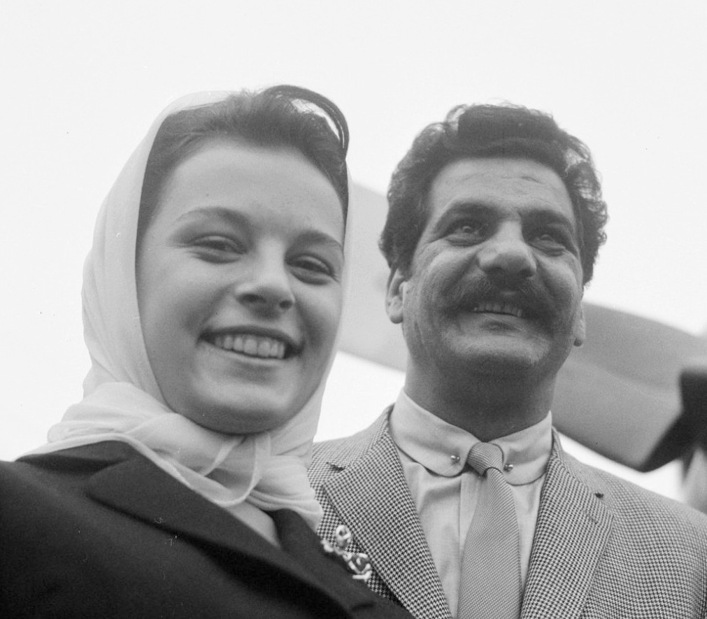 Hülya Koçyiğit (left)and Erol Taş